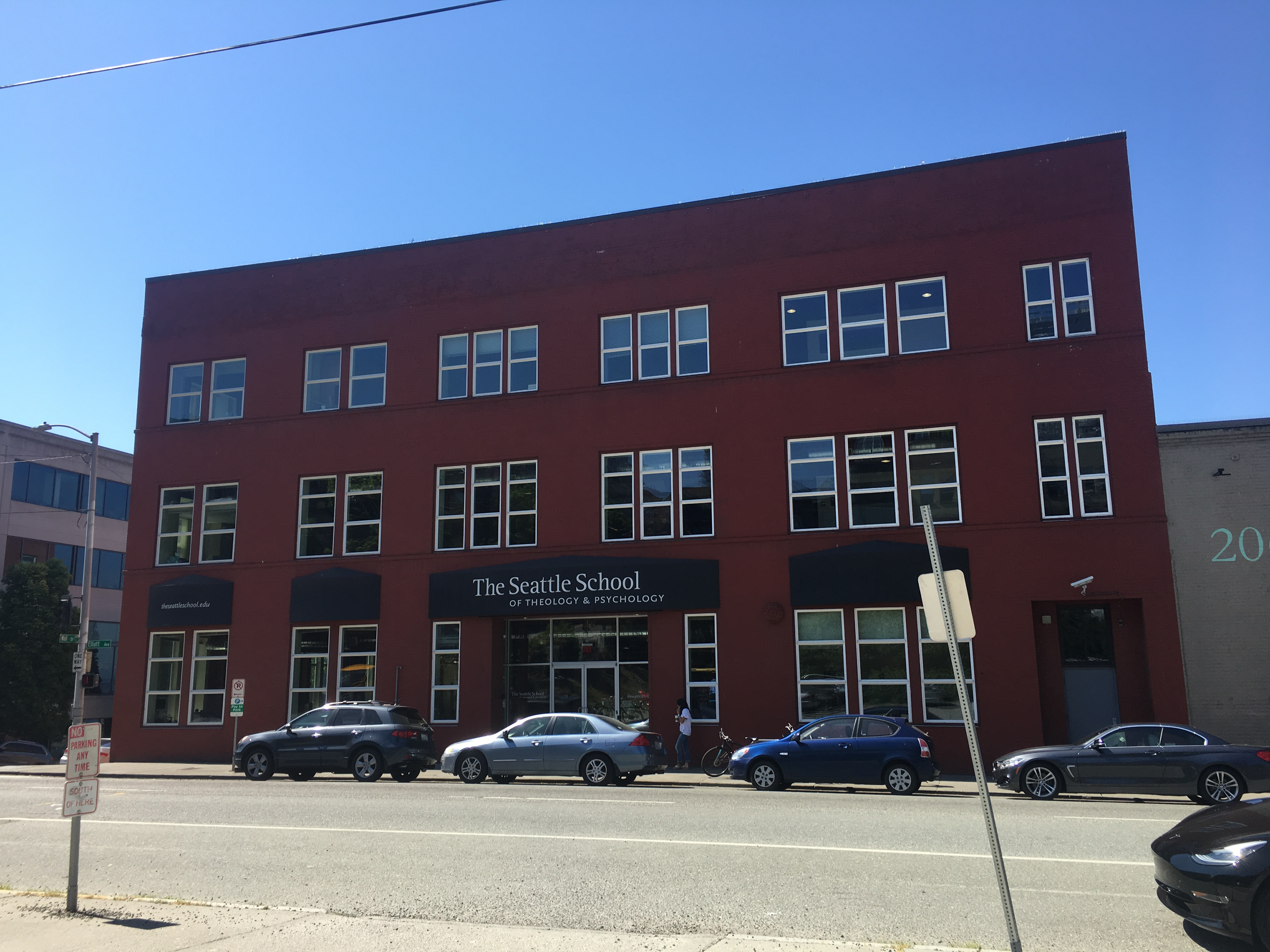 The Seattle School of Theology & Psychology